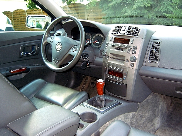 Interior of the Cadillac CTS (1st generation) with leather/wood trim and manual transmission, manufactured for export to Germany. Innenraum des Cadillac CTS (1. Generation) mit Leder- und Holzausstattung sowie manuellem Schaltgetriebe, deutsches Modell.